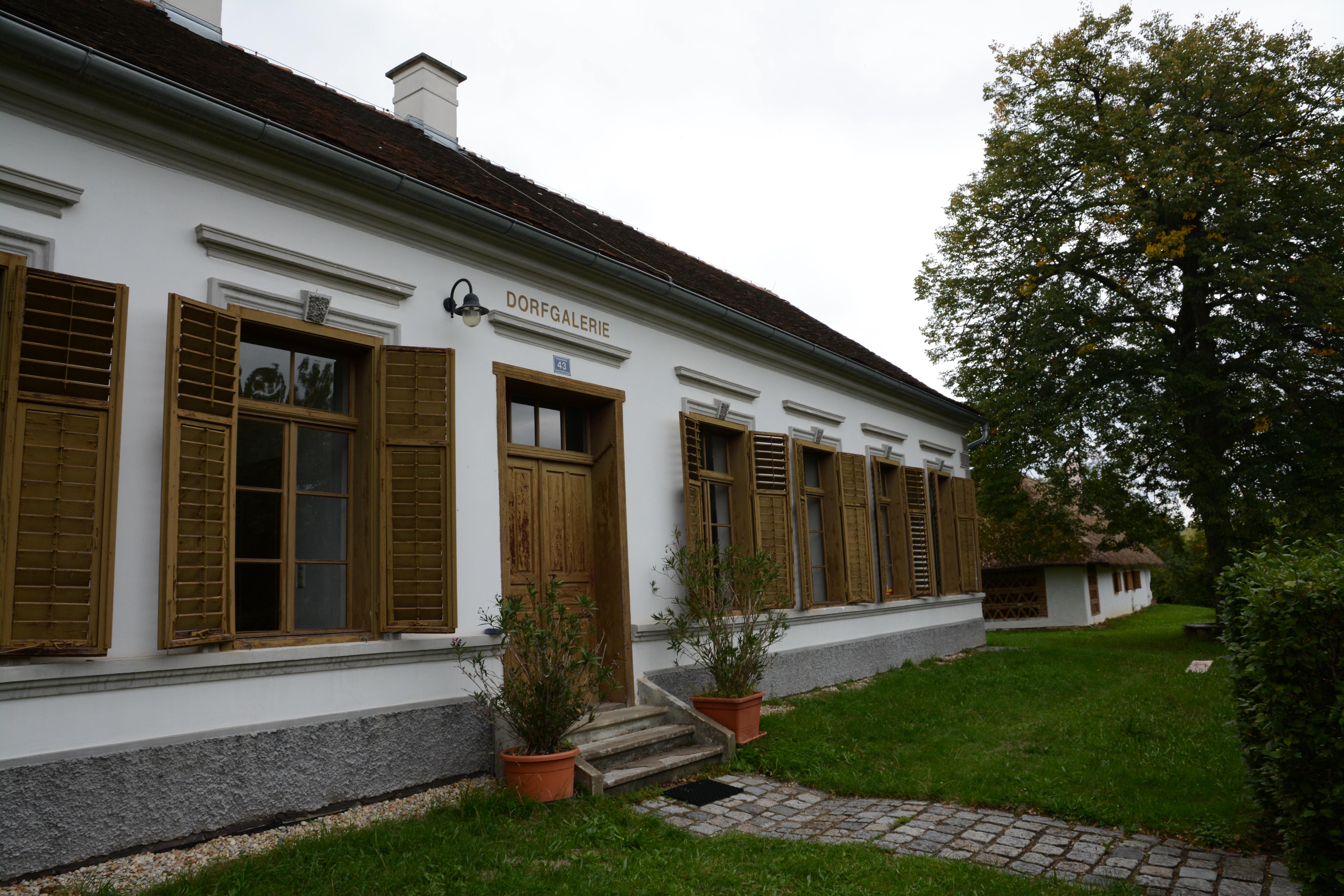 Gallery Neumarkt